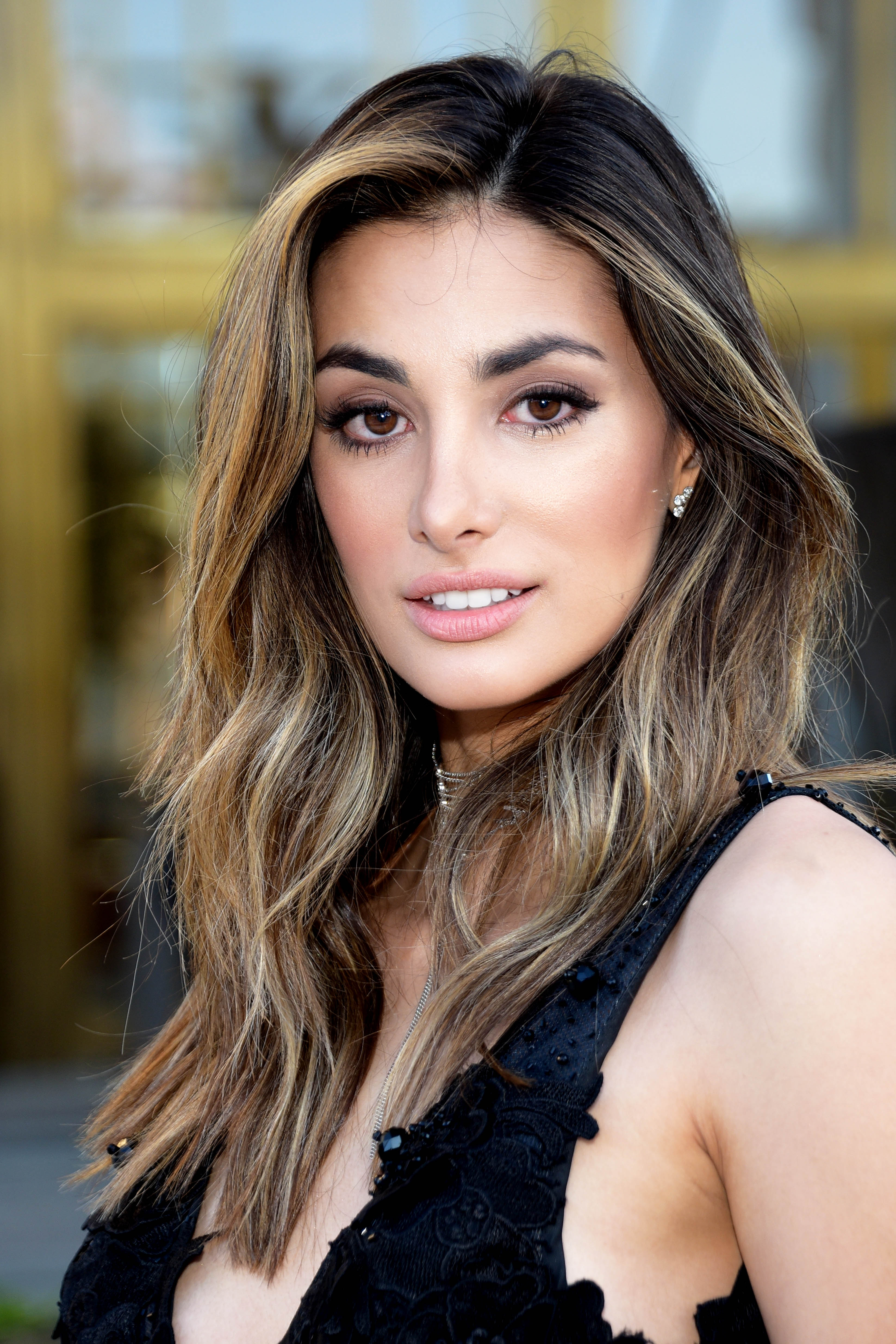 Olga Safari in Beverly Hills on March 4, 2018 - Photo by Glenn Francis of